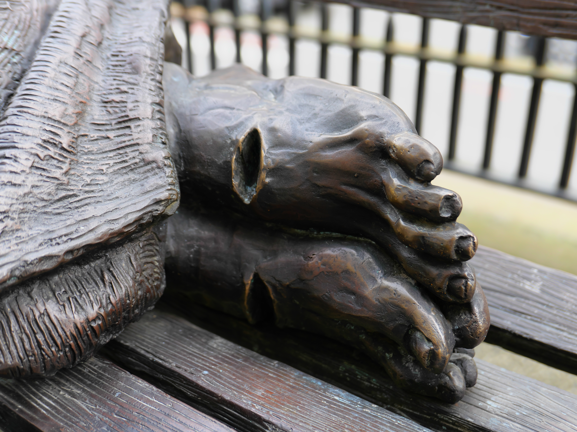 Feet of Homeless Jesus by Timothy Schmalz, Holy Rosary Cathedral, Vancouver